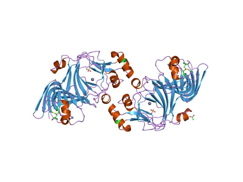 Cartoon representation of the molecular structure of protein registered with 1qwr code.